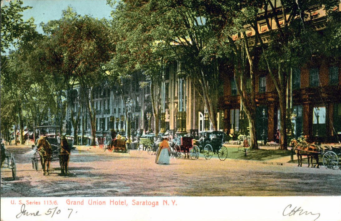 Grand Union Hotel, Saratoga Springs